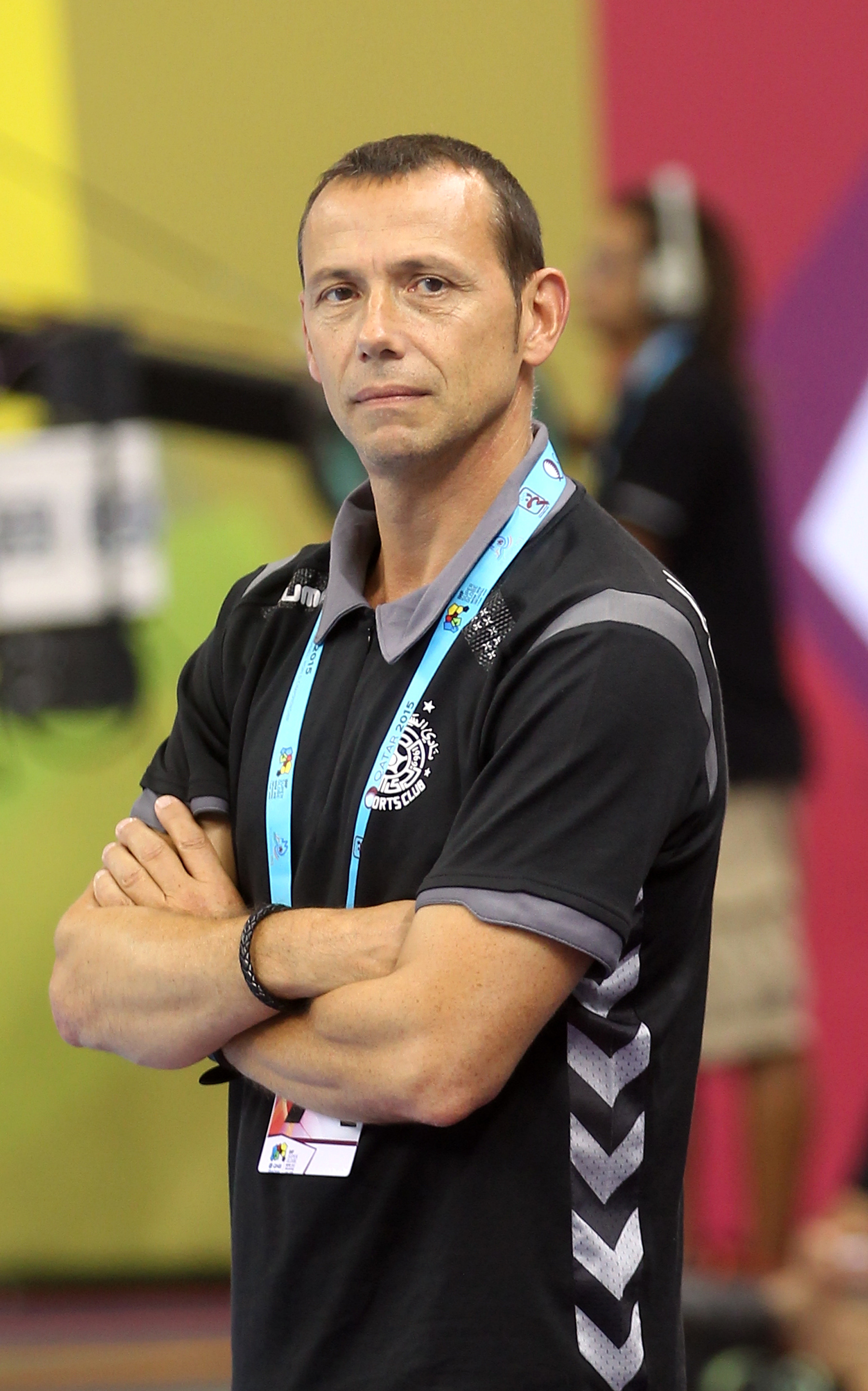 Patrice Canayer, coach of qatar club Al-Sadd SC during the Super Globe in Doha, 27th August 2012.